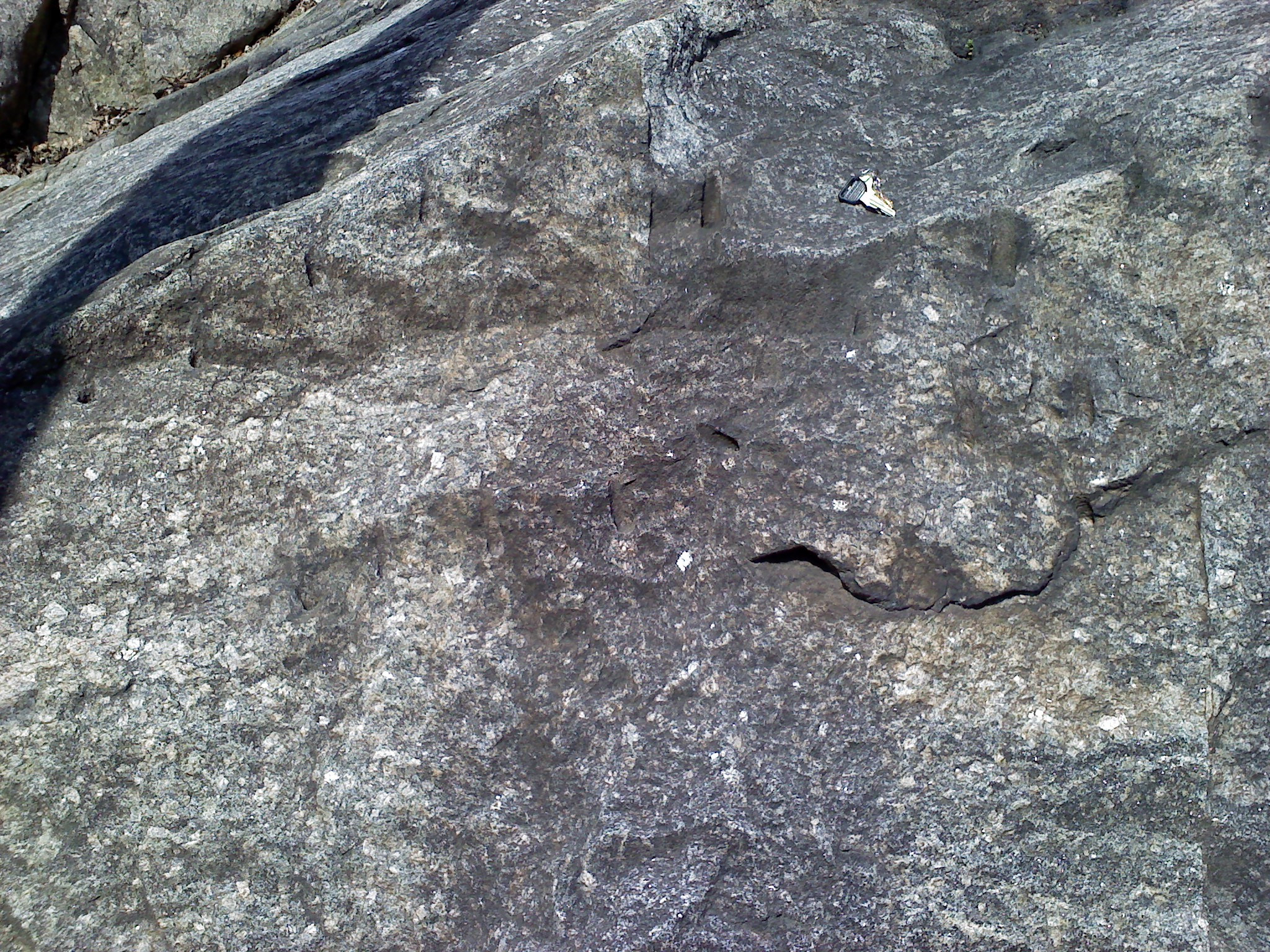 Outcrop of Ellicott City Granodiorite on Main Street, Ellicott City. Car keys for scale.